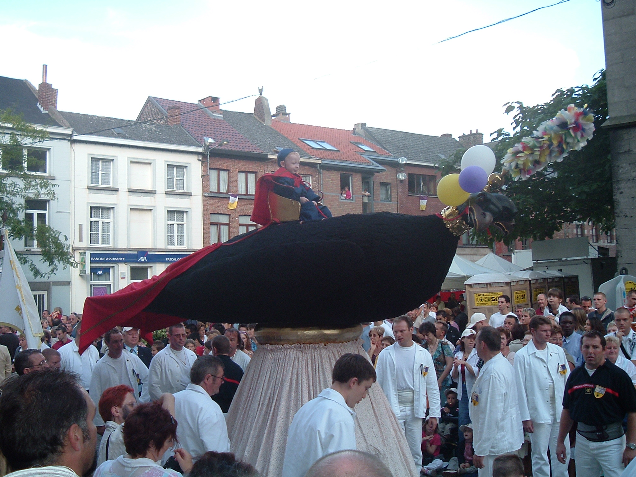 I made the photo myself, I release it into the public domain with no copyrights. - Daniel71953